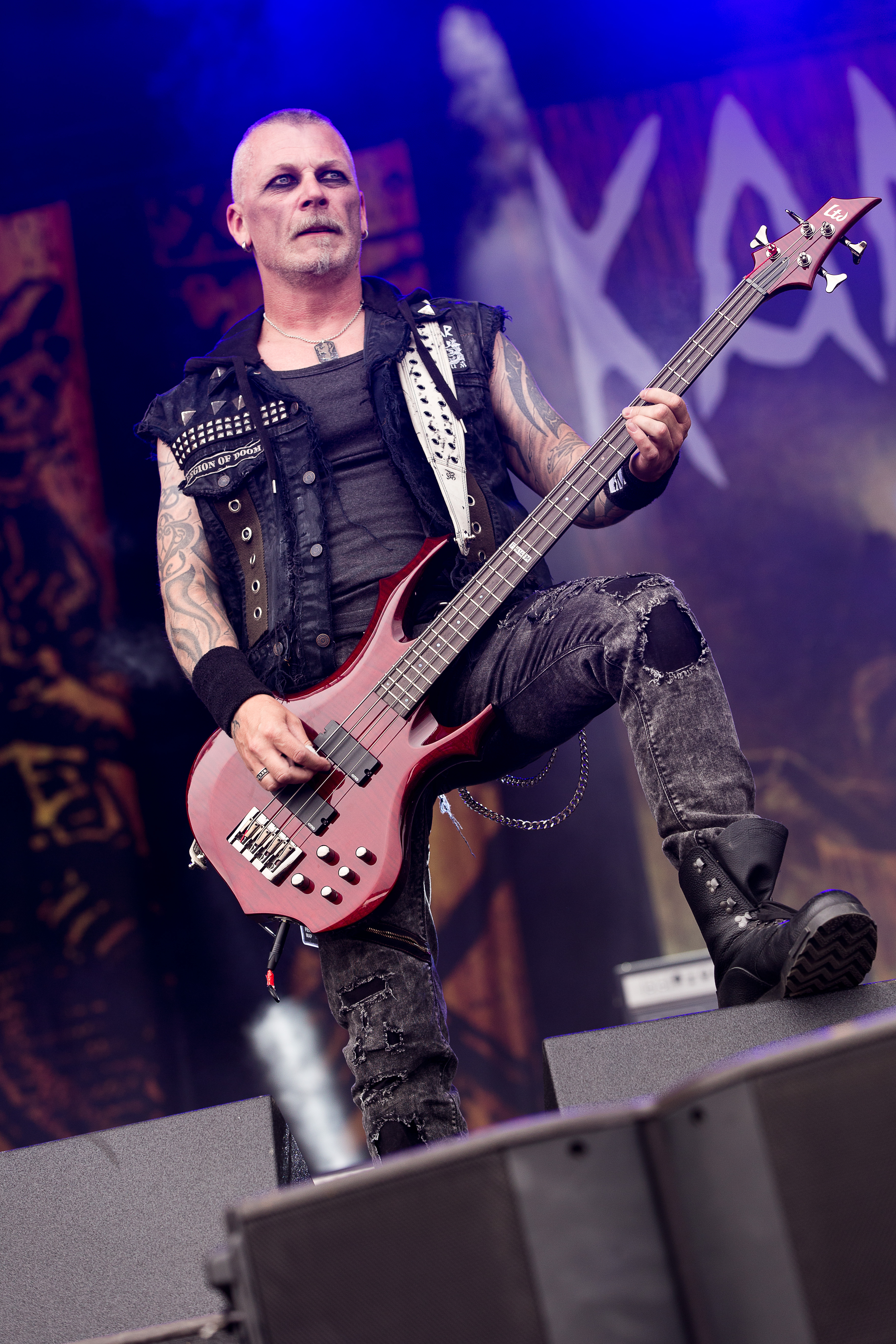 The Norwegian black metal band Kampfar at the Rockharz Open Air 2016 in Ballenstedt/Germany.